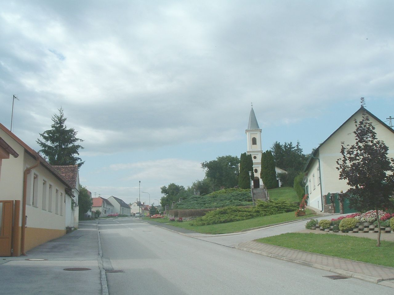 Woppendorf (Várújfalu), Burgenland